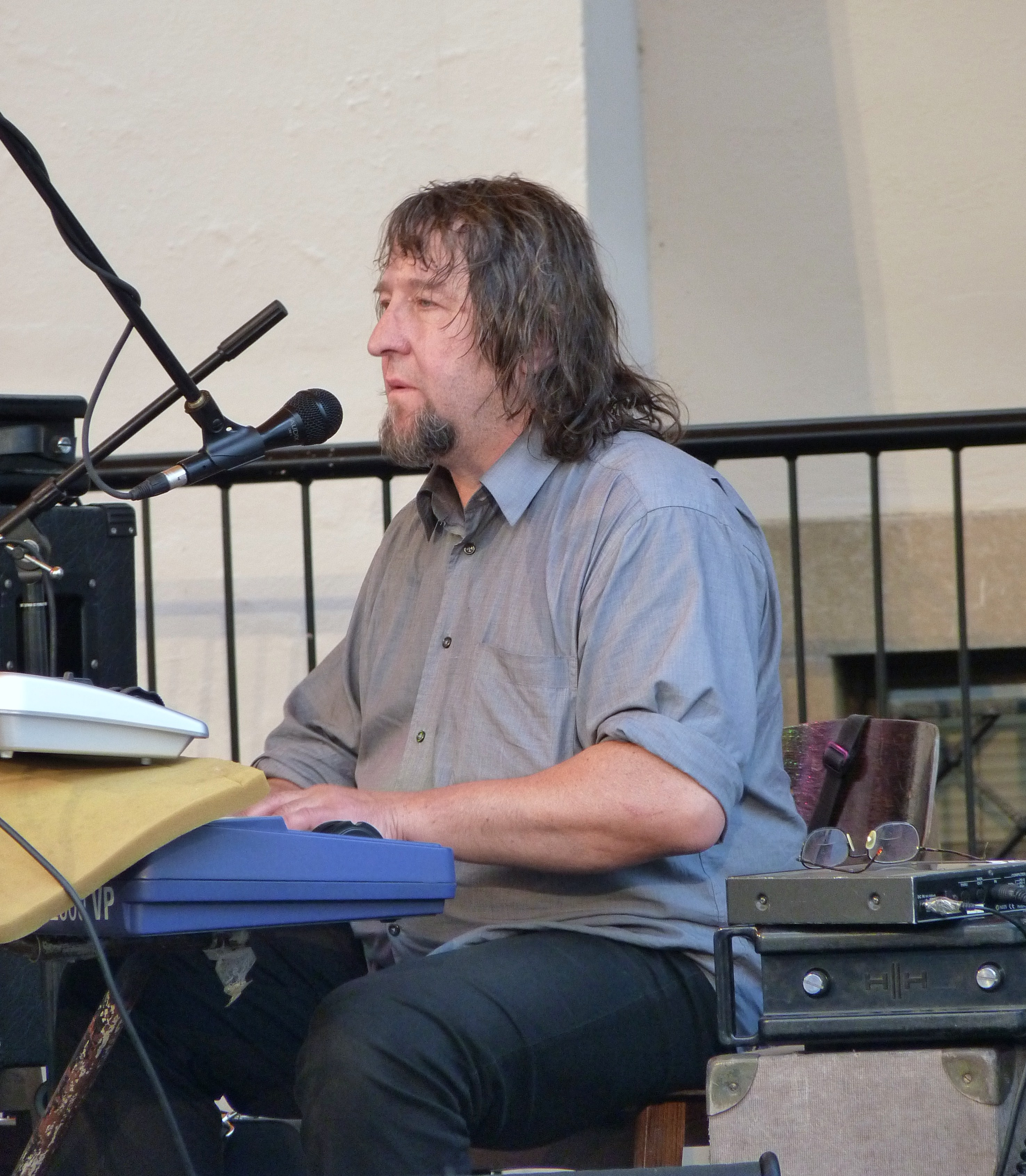 Josef Janíček (Czech musical group The Plastic People of the Universe. Old Town in Brno, 13th June 2010)